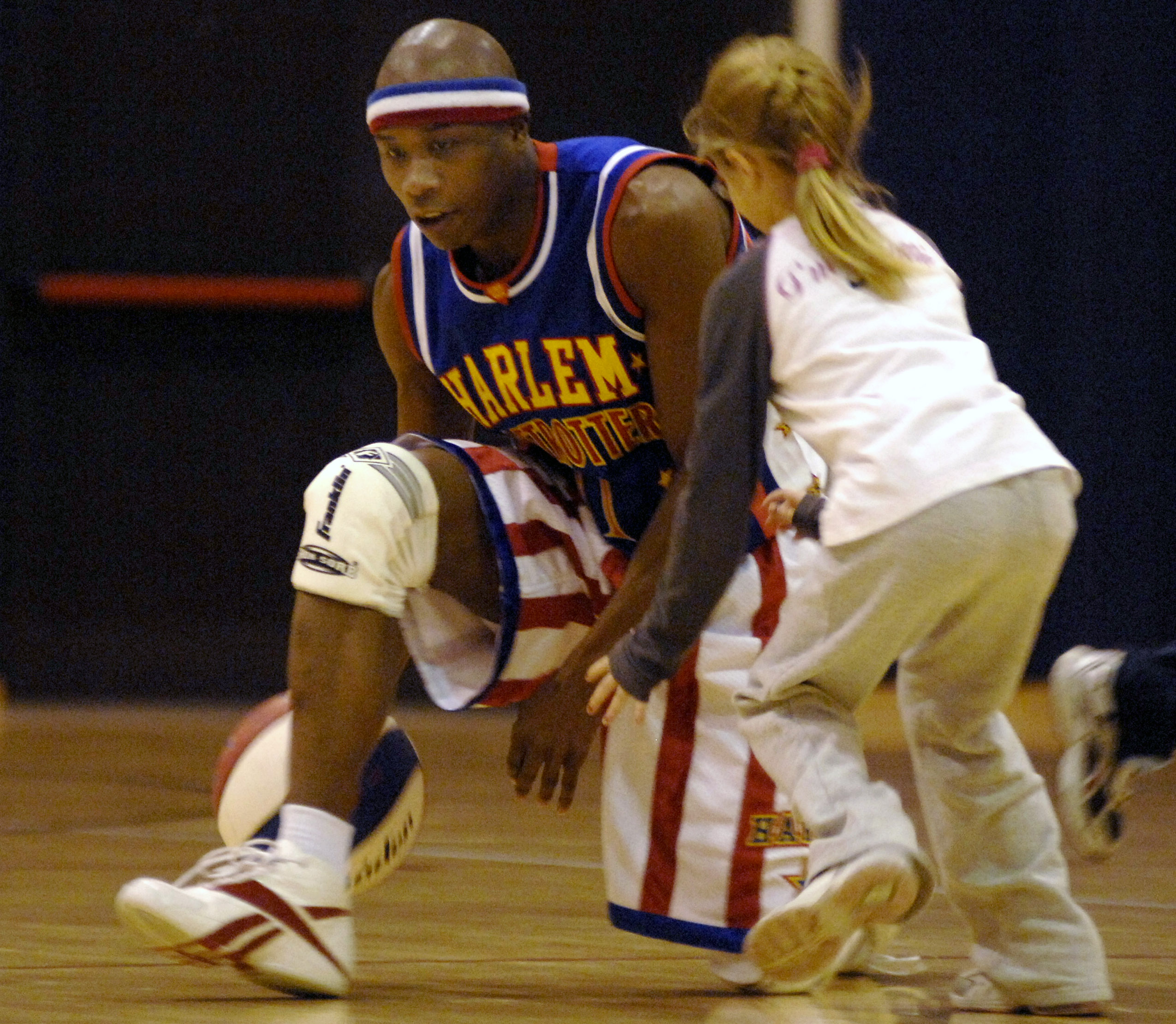 Harlem Globetrotters share the magic Harlem Globetrotter "Sweet Pea" tries to keep the basketball away from audience member Cailynn Smith during a basketball game Dec.1at the Dragon Fitness Center at Aviano Air Base, Italy . The Harlem Globetrotters are touring Army and Air Force installations throughout Europe as part of their "Magic As Ever" 2008 world tour. (US Air Force photo/Airman 1st Class Ashley Wood)